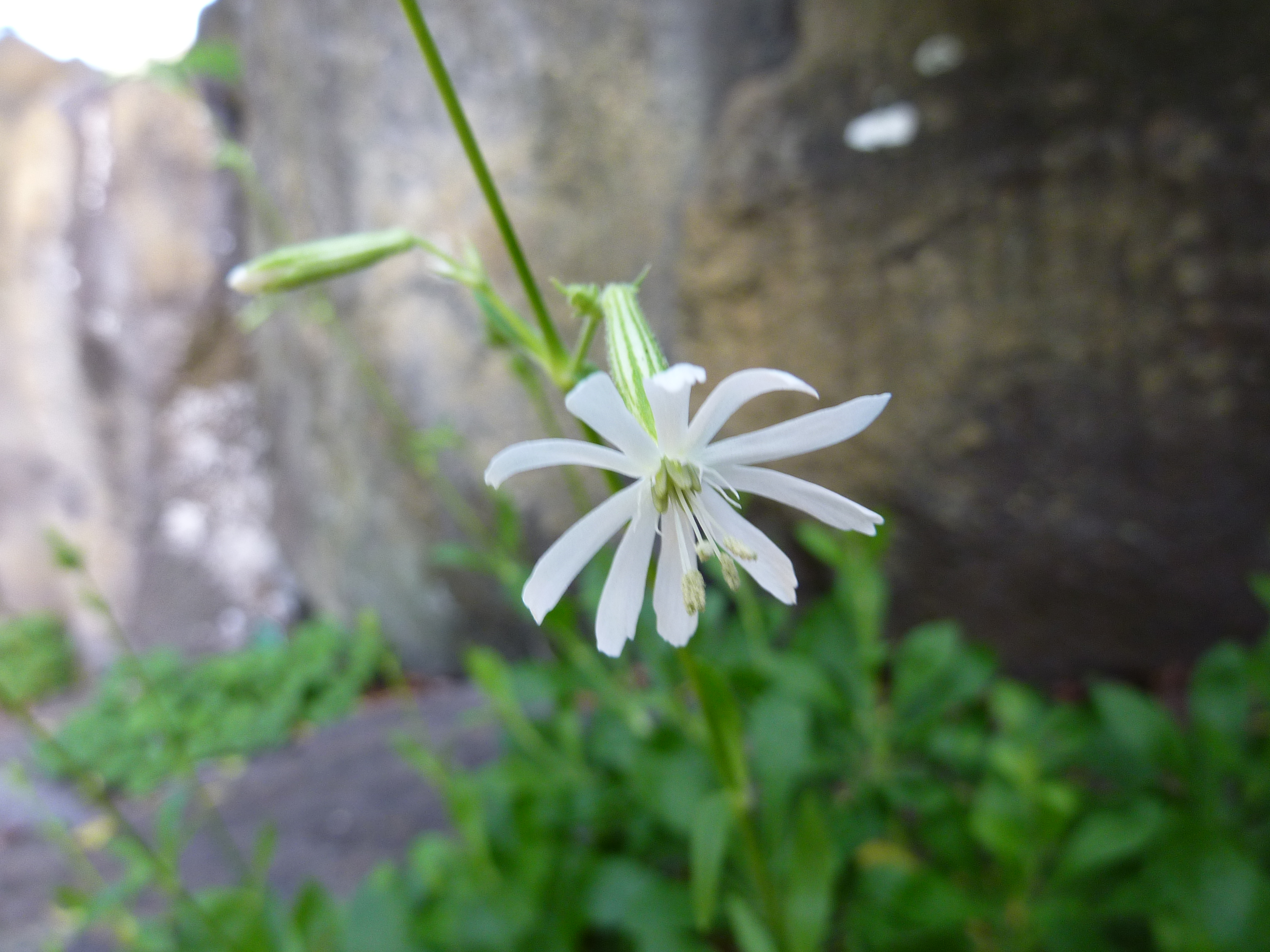 Silene tamaranae in the Jardín Botánico Canario Viera y Clavijo.